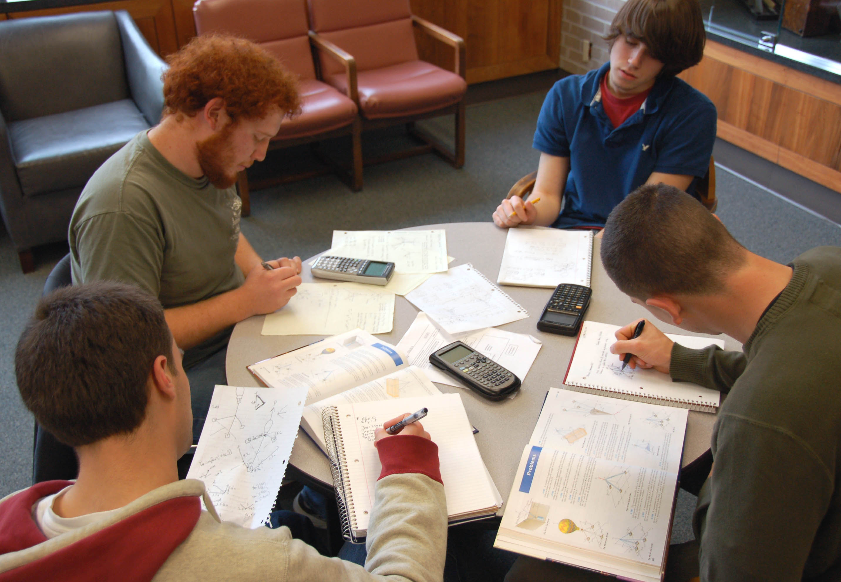 Studying